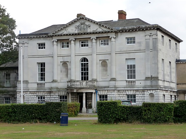 Hare Hall, Upper Brentwood Road A handsome gentleman's villa, designed by James Paine in 1768-69 for John Wallinger, a cork and stone merchant of Colchester. The Tuscan porch was added in 1896 by Howard Seth-Smith. The attached portico with Adamesque capitals and coupled pilasters at the angles of the facade are characteristic of Paine. Grade II* listed. The building has been a school since 1921 and is now part of the Royal Liberty School. Paine built up a successful practice in the 1750s-1770s, causing one commentator to remark that Paine and Robert Taylor, "nearly divided the practice of the profession between them, for they had few competitors till Mr Robert Adam entered the lists". Paine's star did wane somewhat as Adam's shone more brightly.